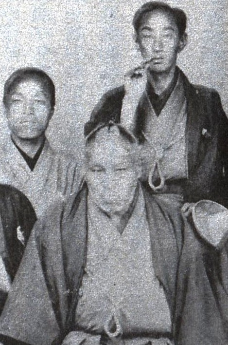 Left to light , Machino Mondo , Yanase Sanzemon , Matsudaira Katamori